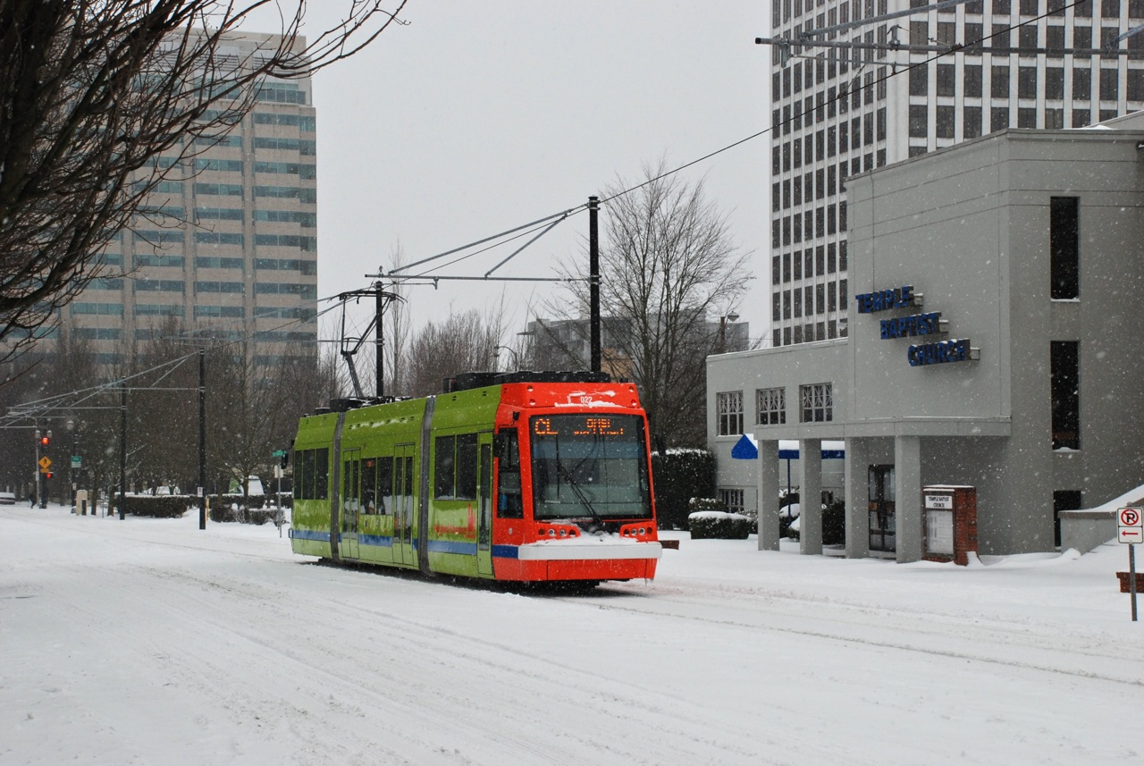 During one of Portland's heaviest snowfalls in years, Portland Streetcar car 022 (built in 2012–13 by United Streetcar) is southbound on NE 7th Avenue just south of Clackamas Street (going away from the camera), bound for OMSI on the 2012-opened CL Line.